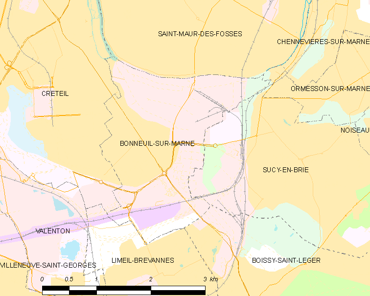 Map of French municipality Bonneuil-sur-Marne